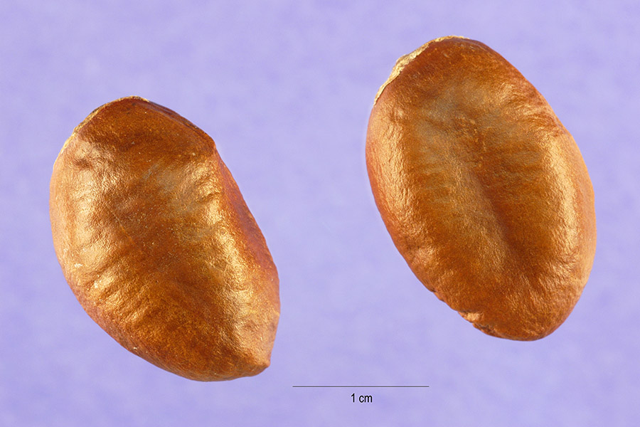 Seeds Asimina triloba (Pawpaw)